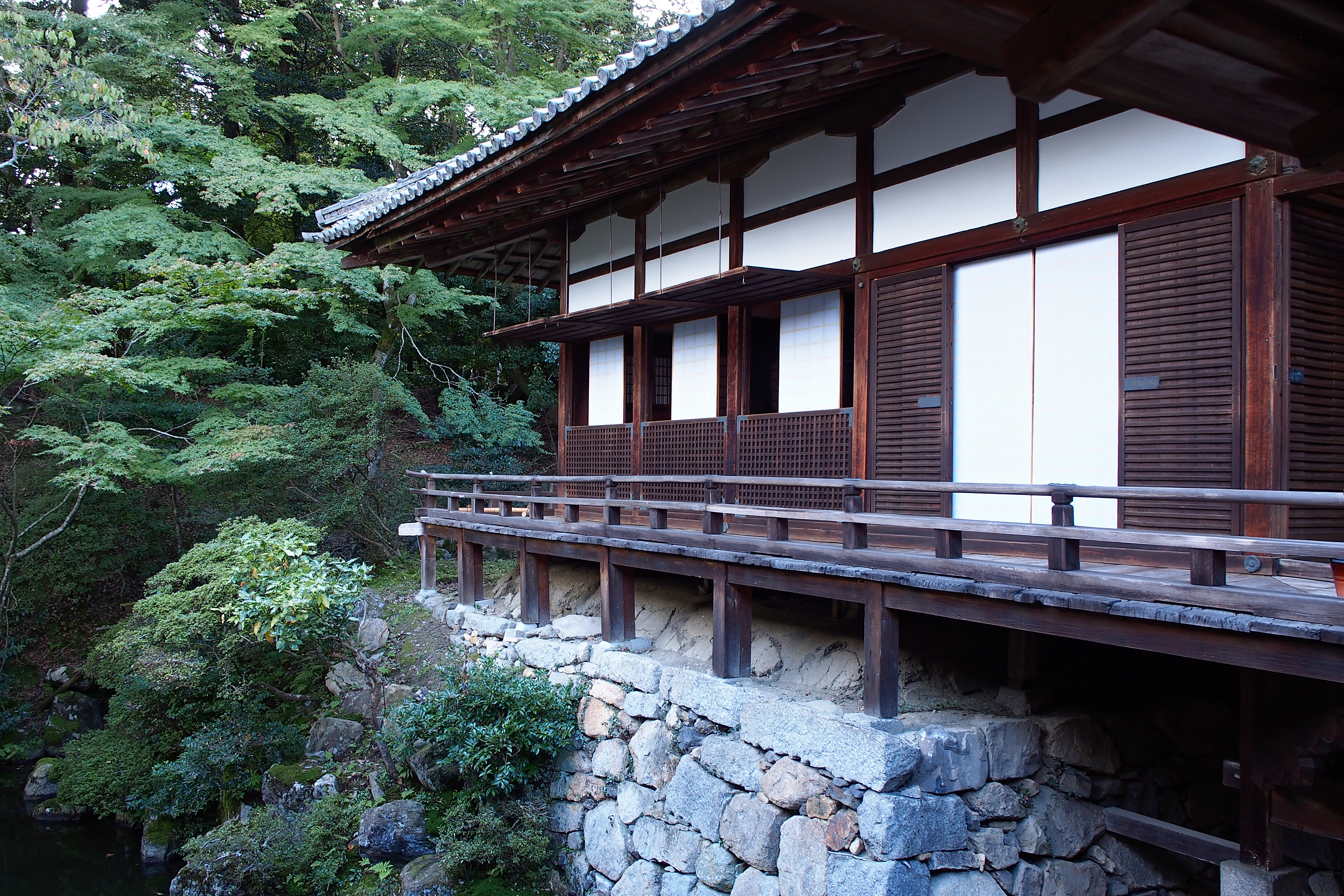 Enman-in in Otsu, Shiga prefecture, Japan